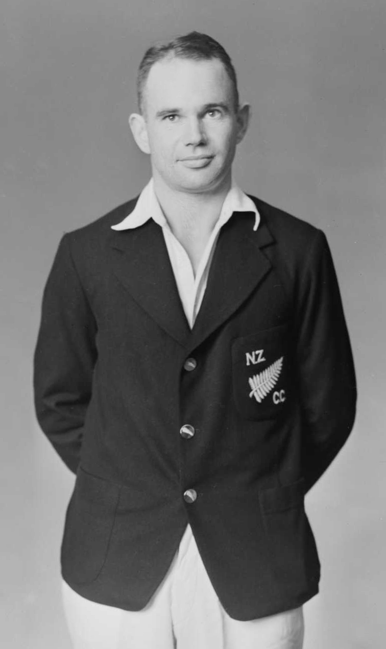 Albert Roberts, member of the New Zealand representative cricket team, 1937